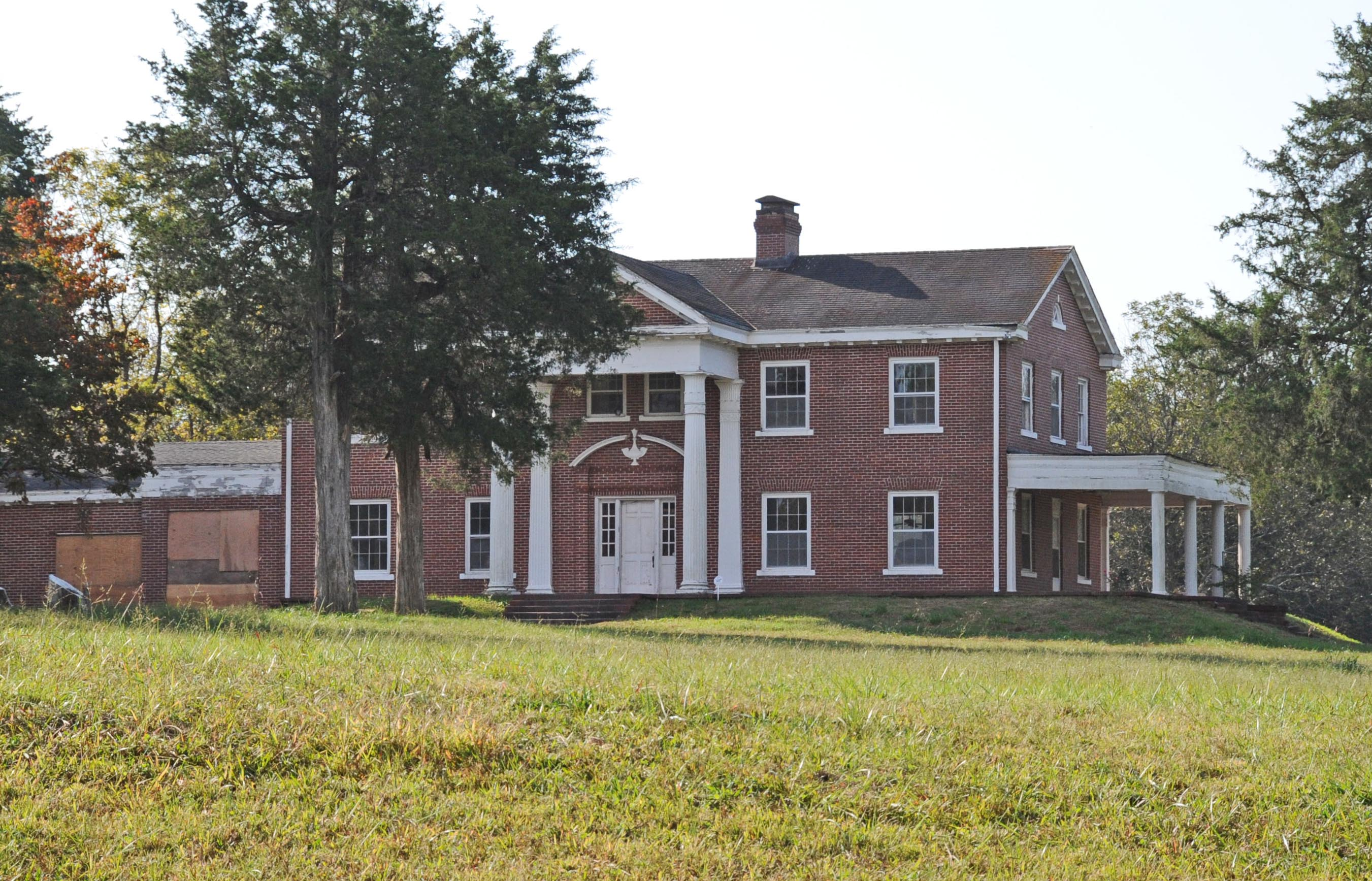 AKA COLLIER-CALDWELL HOUSE BUILT IN 1930 IN COLONIAL REVIVAL STYLE